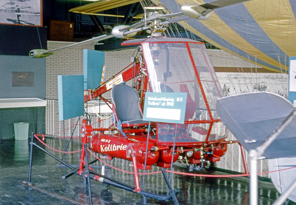 NHI H-3 Kolibri c/n 3007 PH-NGV marked as 'PH-NHI' when on display at the Aviodrome museum at Amsterdam Schiphol in 1967